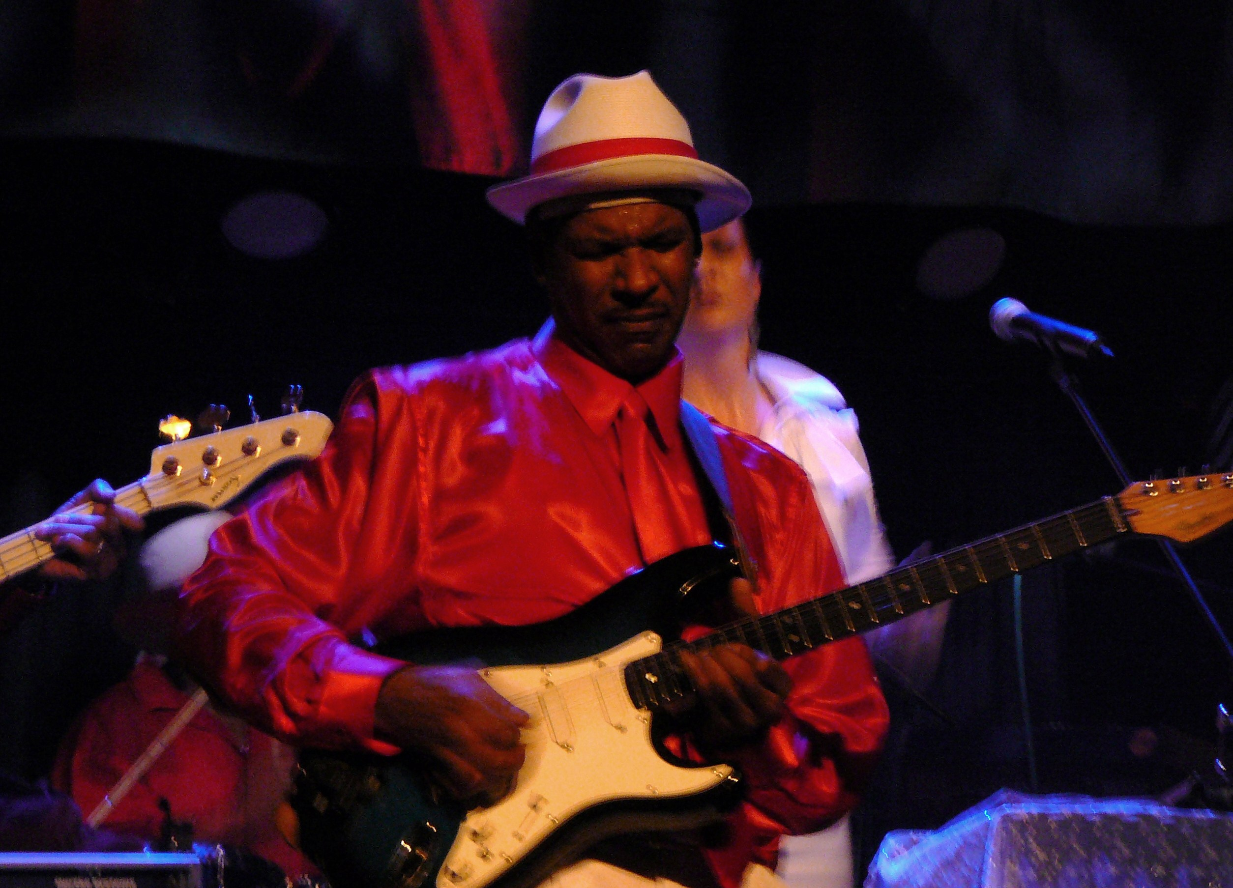 Wilton Rabb performing at 17th International Istanbul Jazz Festival with Graham Central Station (July 2010)